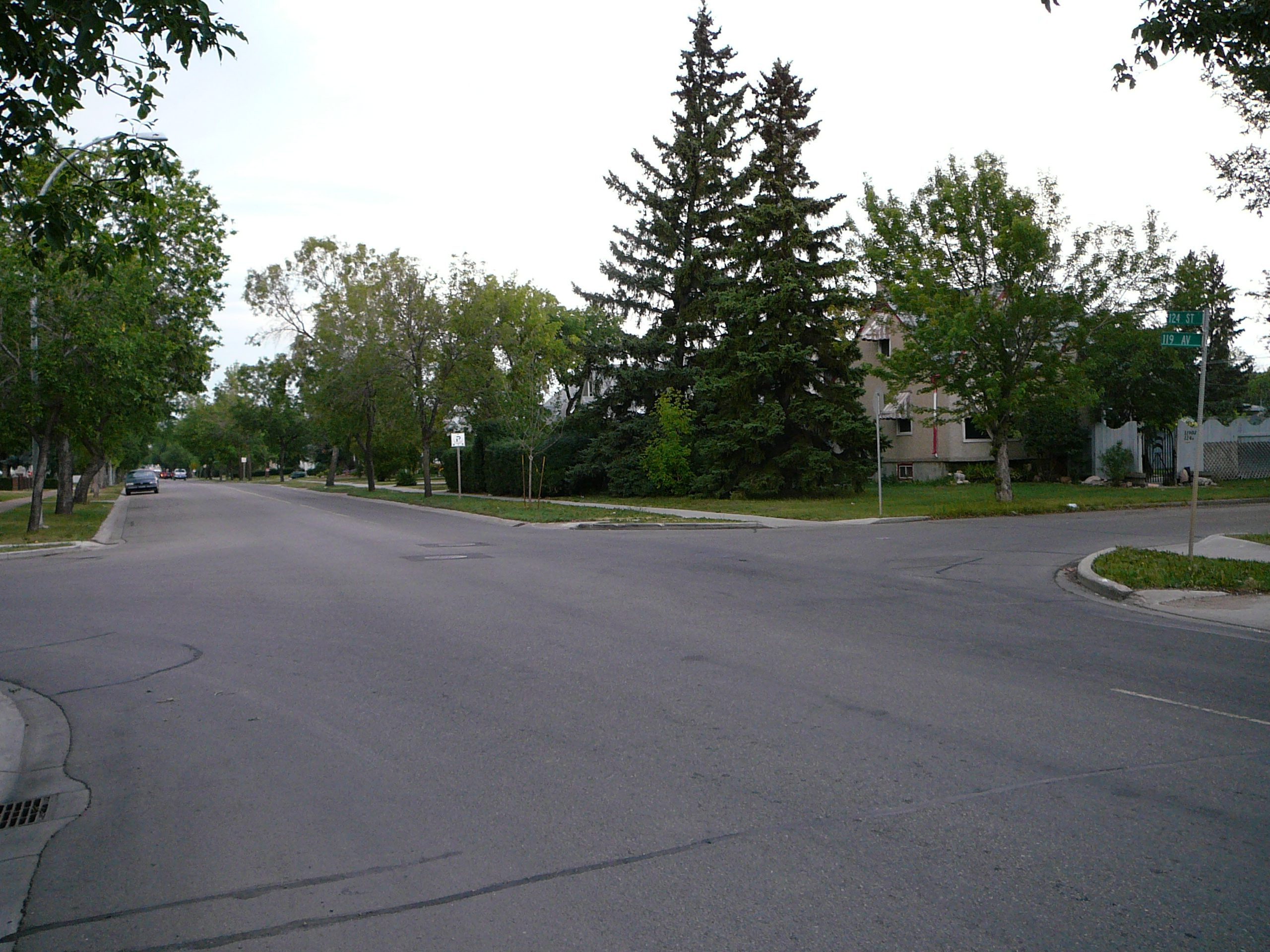 124 Street in the Edmonton, Canada, neighbourhood of Prince Charles